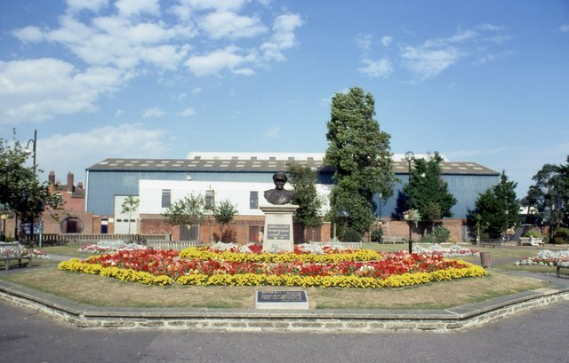 Bust of The Lord Fieldhouse This bust of The Lord Fieldhouse was relocated a few years later and is now facing towards Portsmouth.